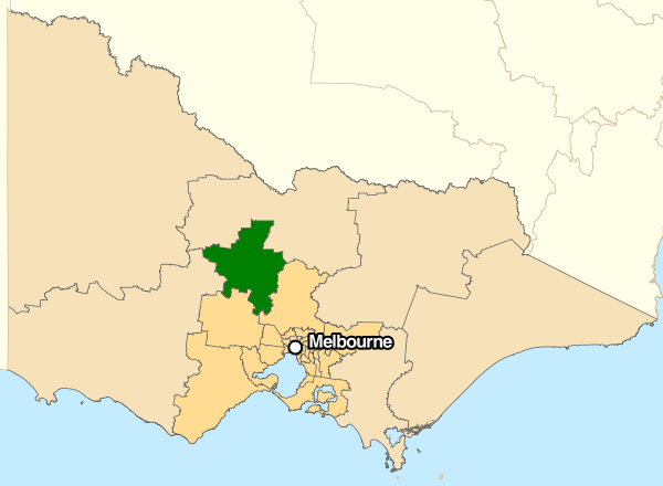 The Division of Bendigo (dark green) in the Australian state of Victoria. This image incorporates data that is: © Commonwealth of Australia (Australian Electoral Commission) 2014